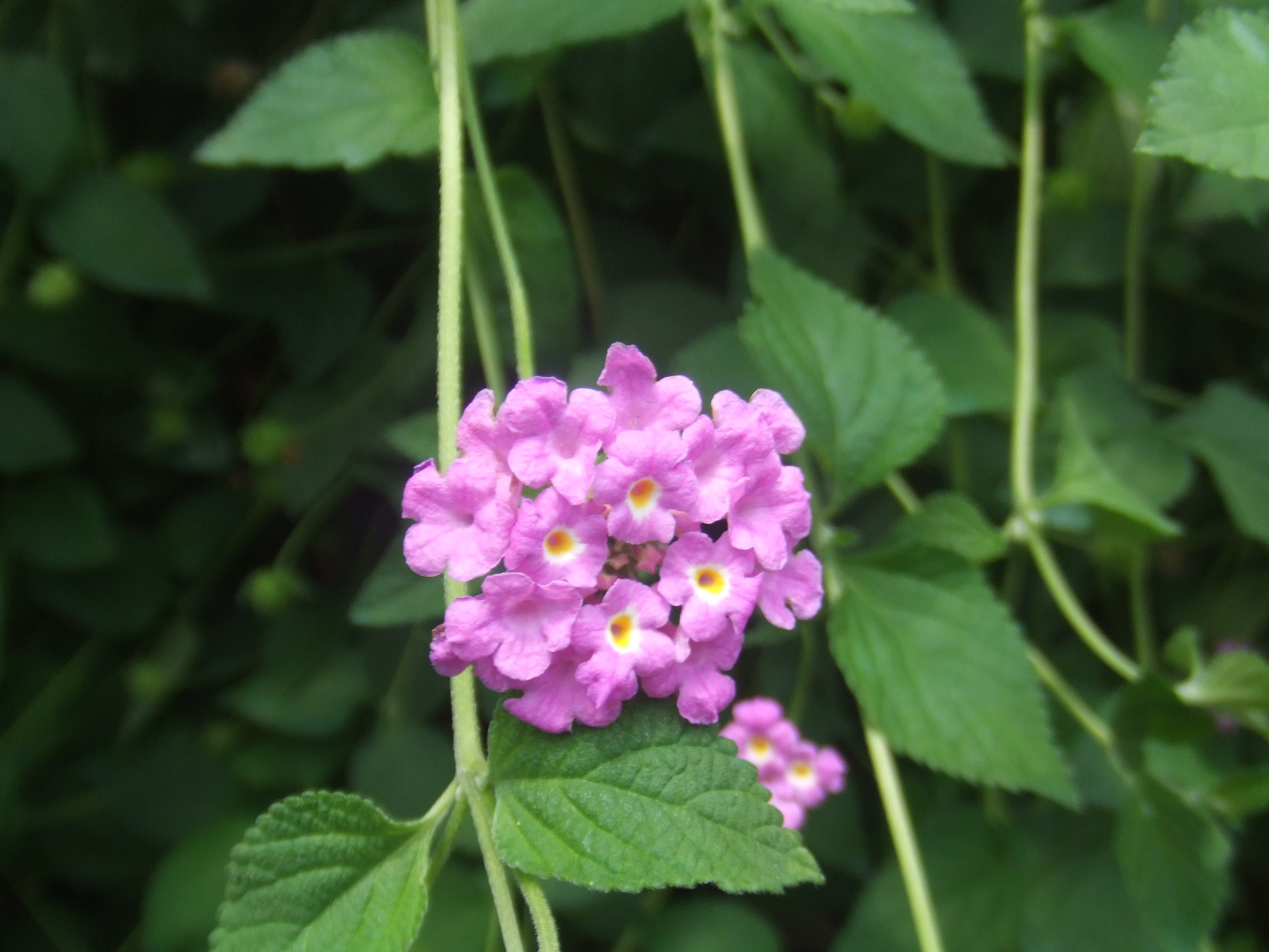 Lantana montevidensis, picture taken at the Passiflorahoeve in Harskamp, The Netherlands